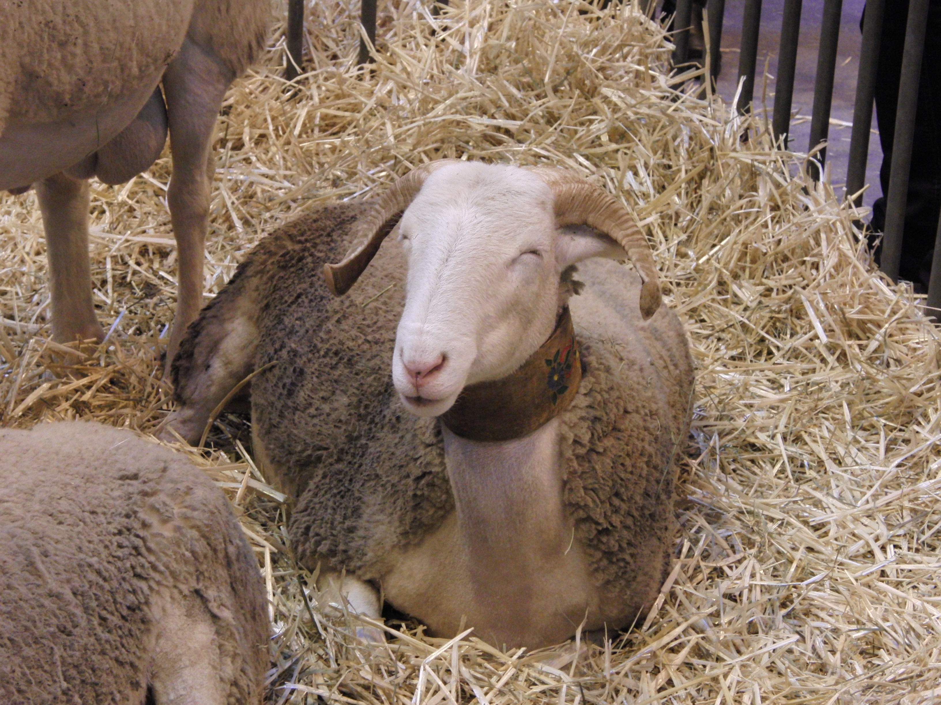 Tarasconnaise sheep - Paris International Agricultural Show 2011, Paris, France